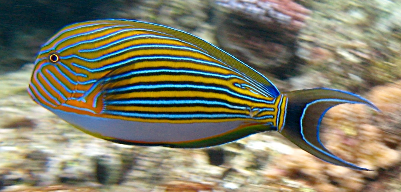 Striped Surgeon (Acanthurus lineatus) on Flynn reef (near Cairns), Great Barrier Reef, Queensland, Australia.